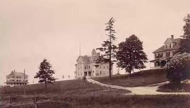 Austin Cate Academy, Center Strafford, NH; from a c. 1912 postcard.